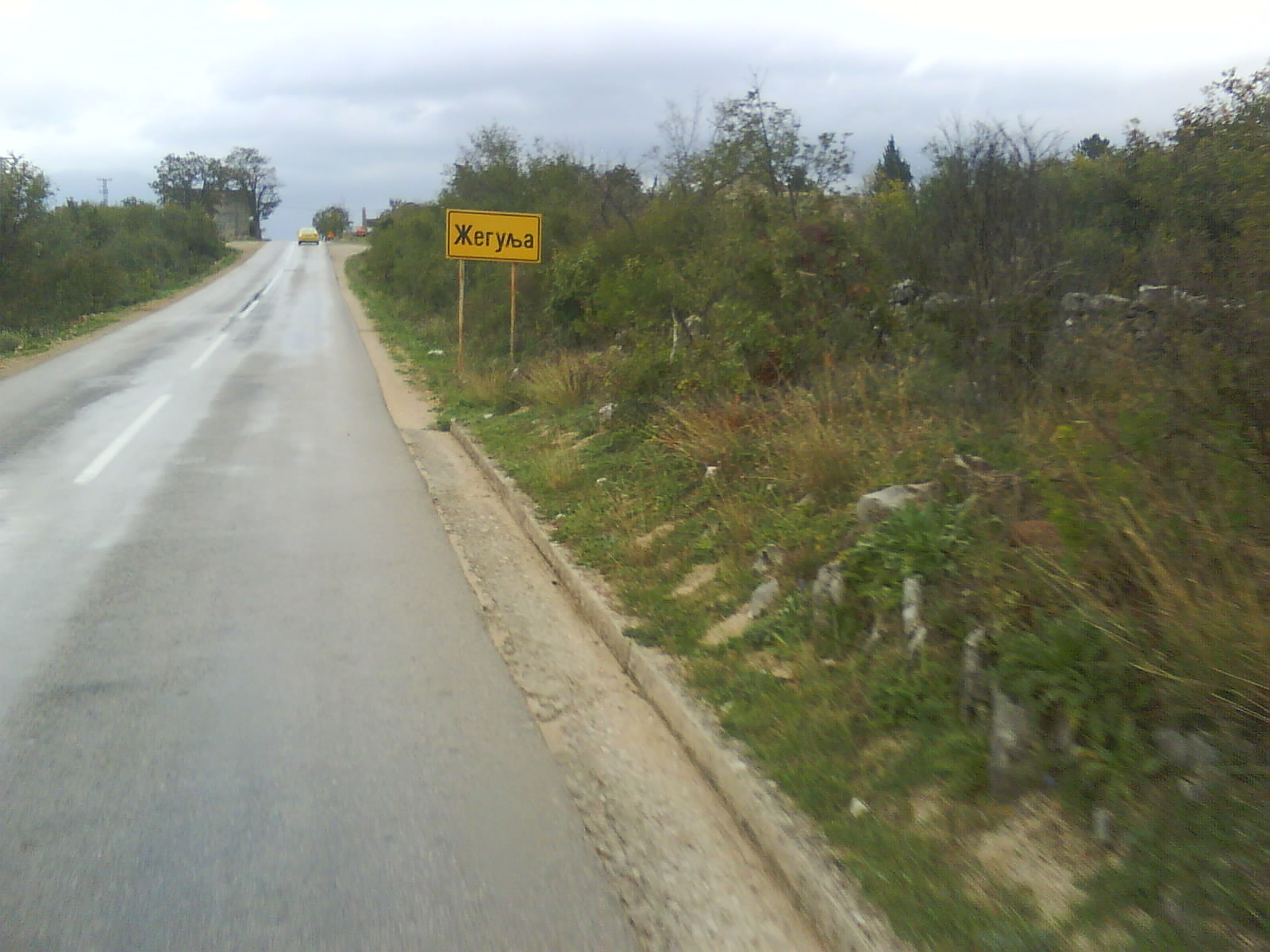 Landscapes in municipality of Ljubinje,East Herzegovina